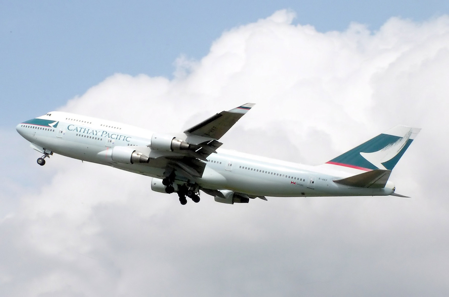 Cathay Pacific Boeing 747-400 (B-HKF) landing at London Heathrow Airport, England. Photographed by Adrian Pingstone in May 2006 and released to the public domain.